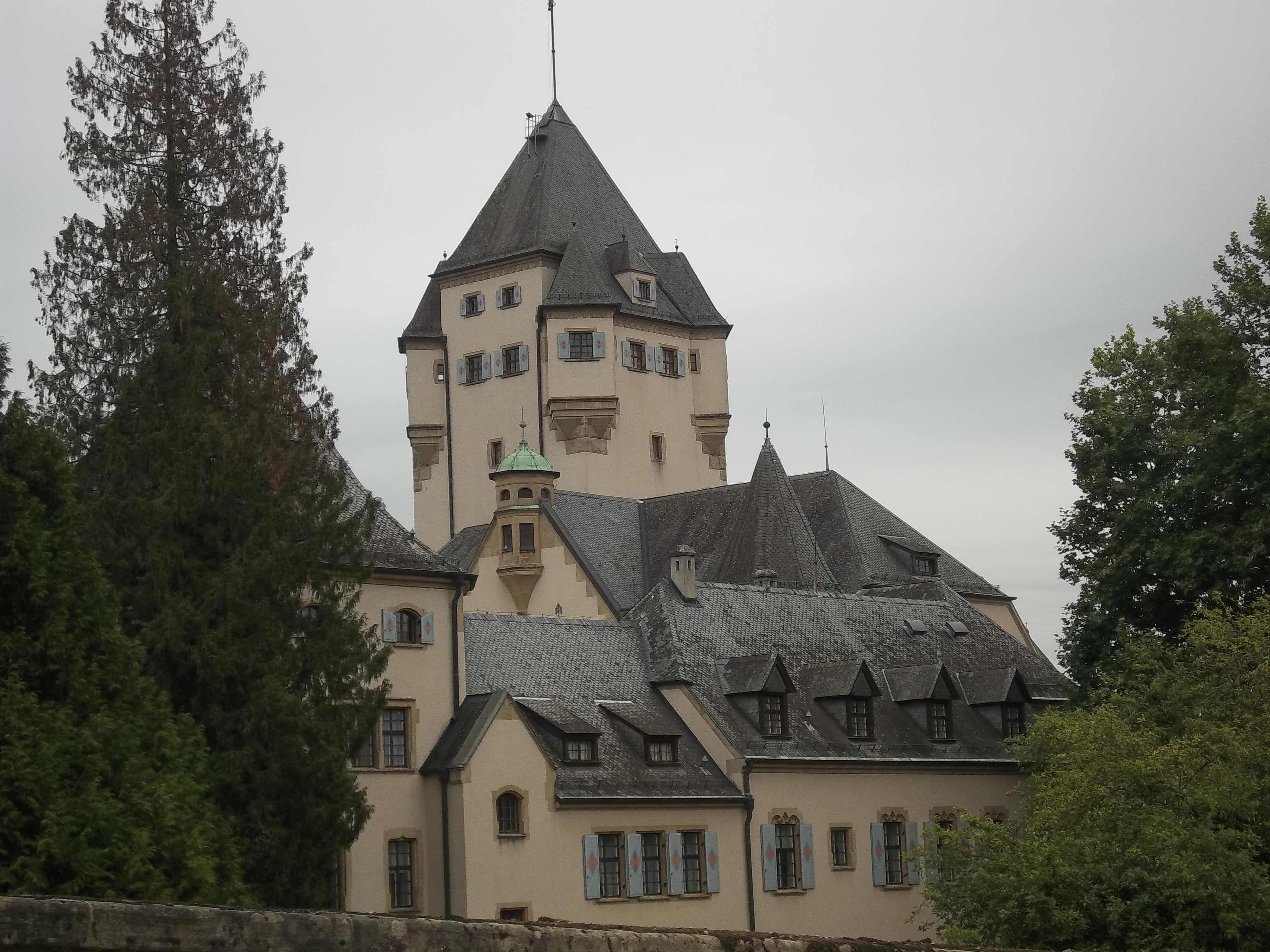 The view on the palace, which is the second official residence of the Grand Duke's family, situated near the village Colmar-Berg